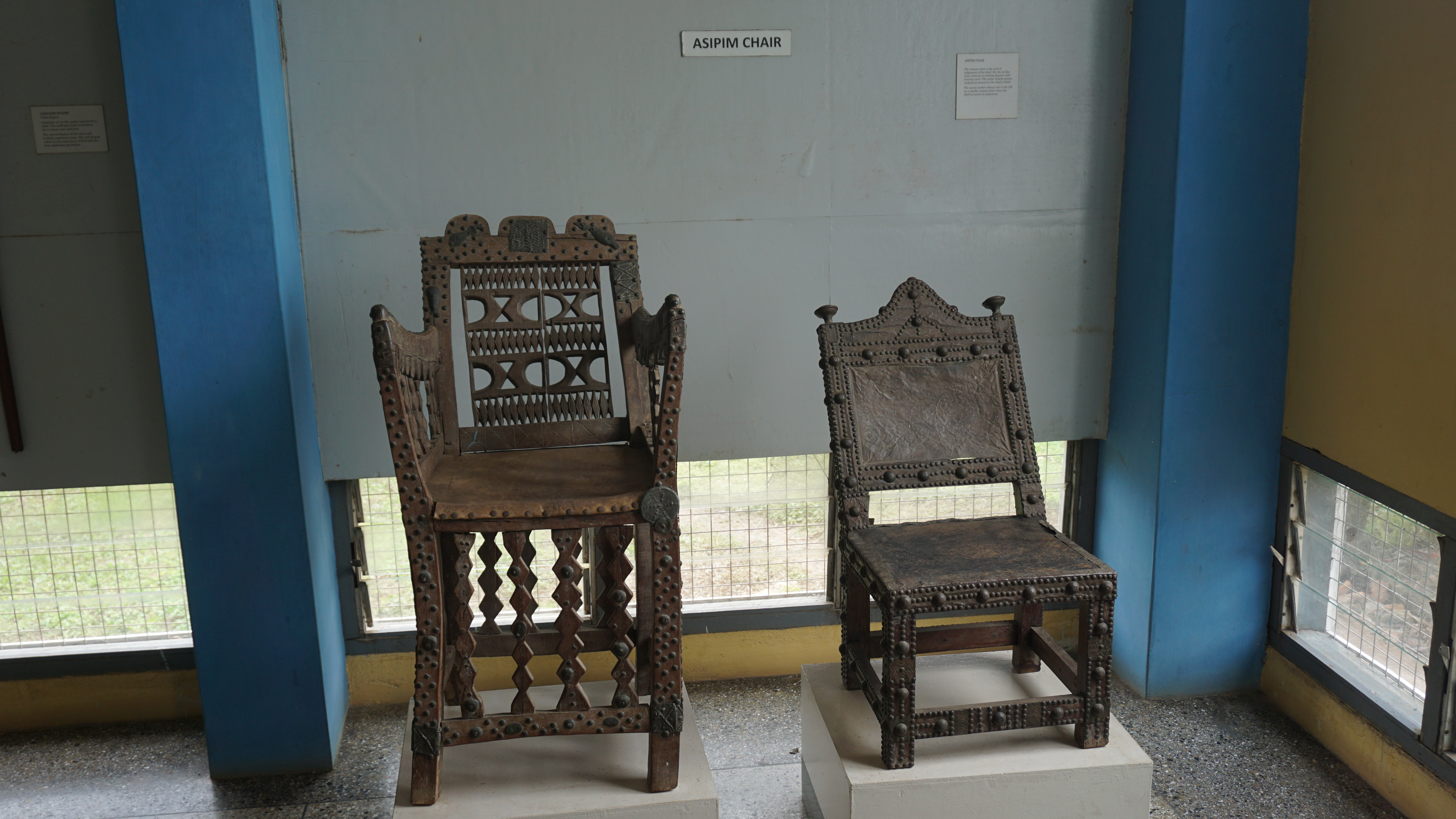 A chair used by the chiefs in the past